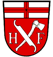 Coat of Arms of Heinrichsthal